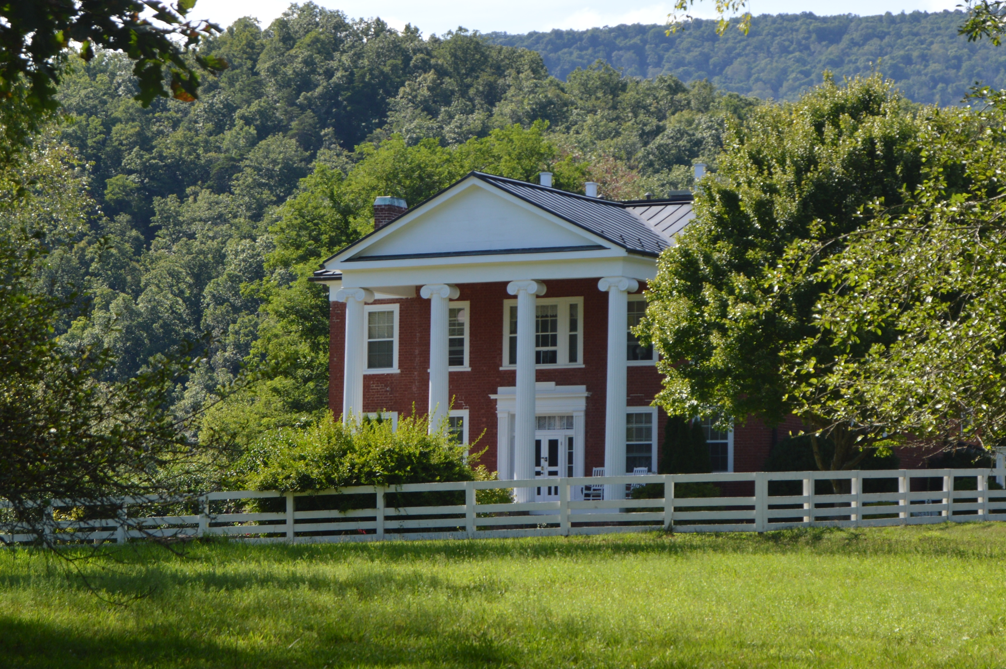 Front of the Hidden Valley farmhouse, located in the Hidden Valley of Bath County, Virginia, United States. Built in 1858, it is listed on the National Register of Historic Places.